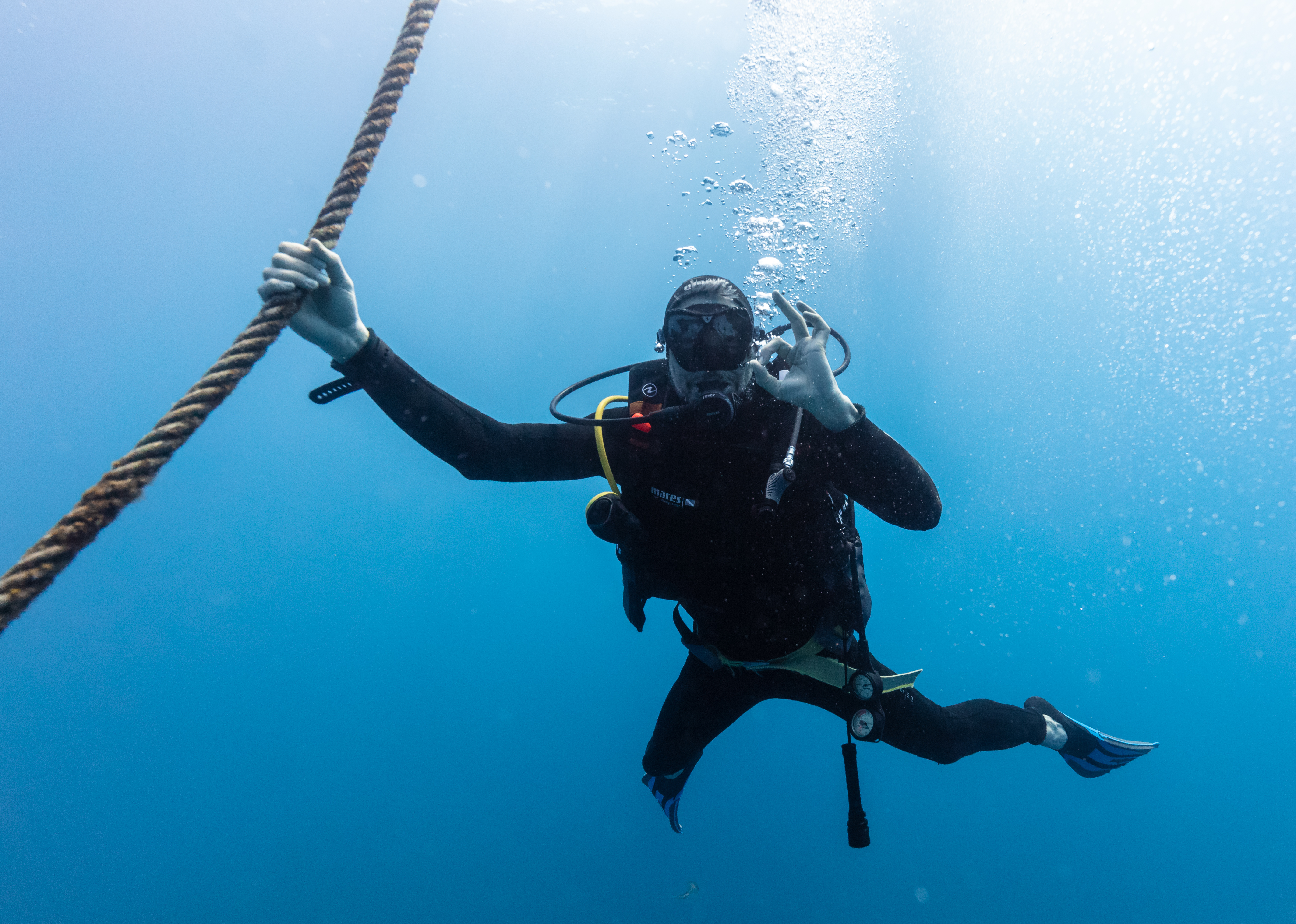 Diego Delso diving in Madeira, Portugal